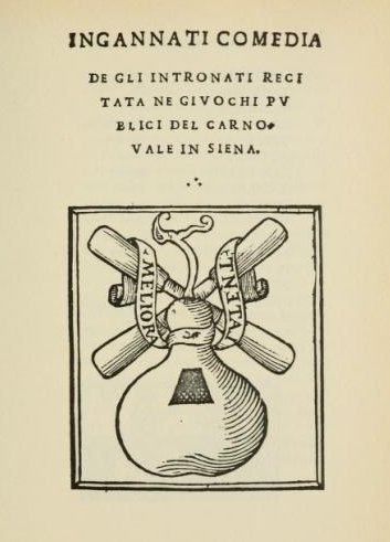 Front cover of the 1531 play Gli ingannati, COMEDIA DE GLI INTRONATI RECITATA NE GIVOCHI PVBLICI DEL CARNOVALE IN SIENA.